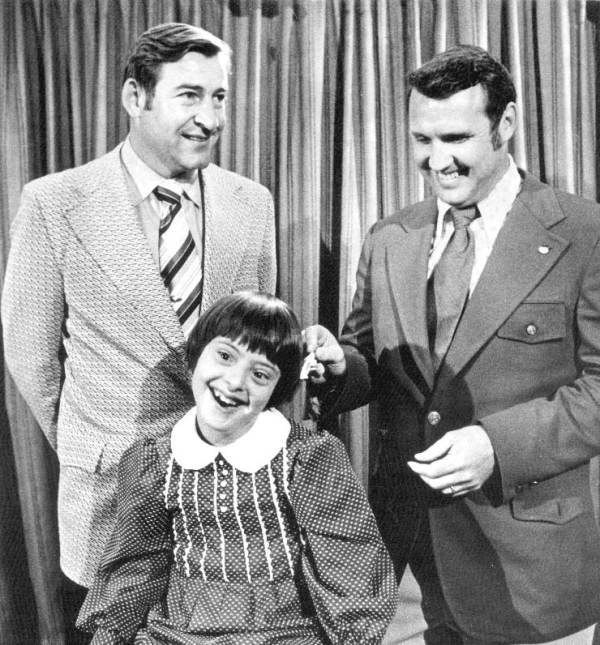 Doug Dickey (L), 1972